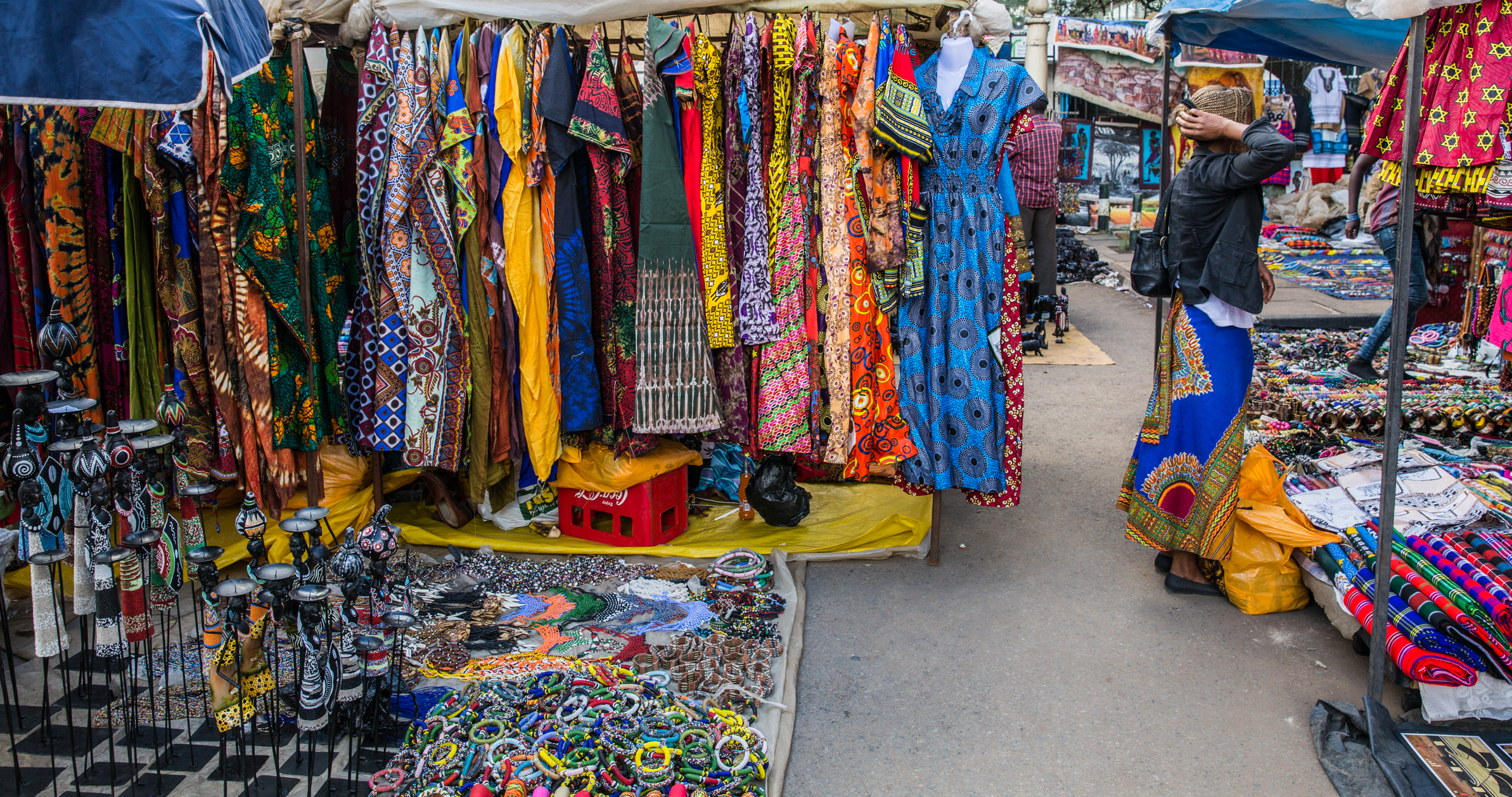 Masai Market Nairobi